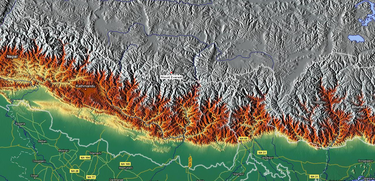 Mount Everest (Sagarmathaसगरमाथा) relief map